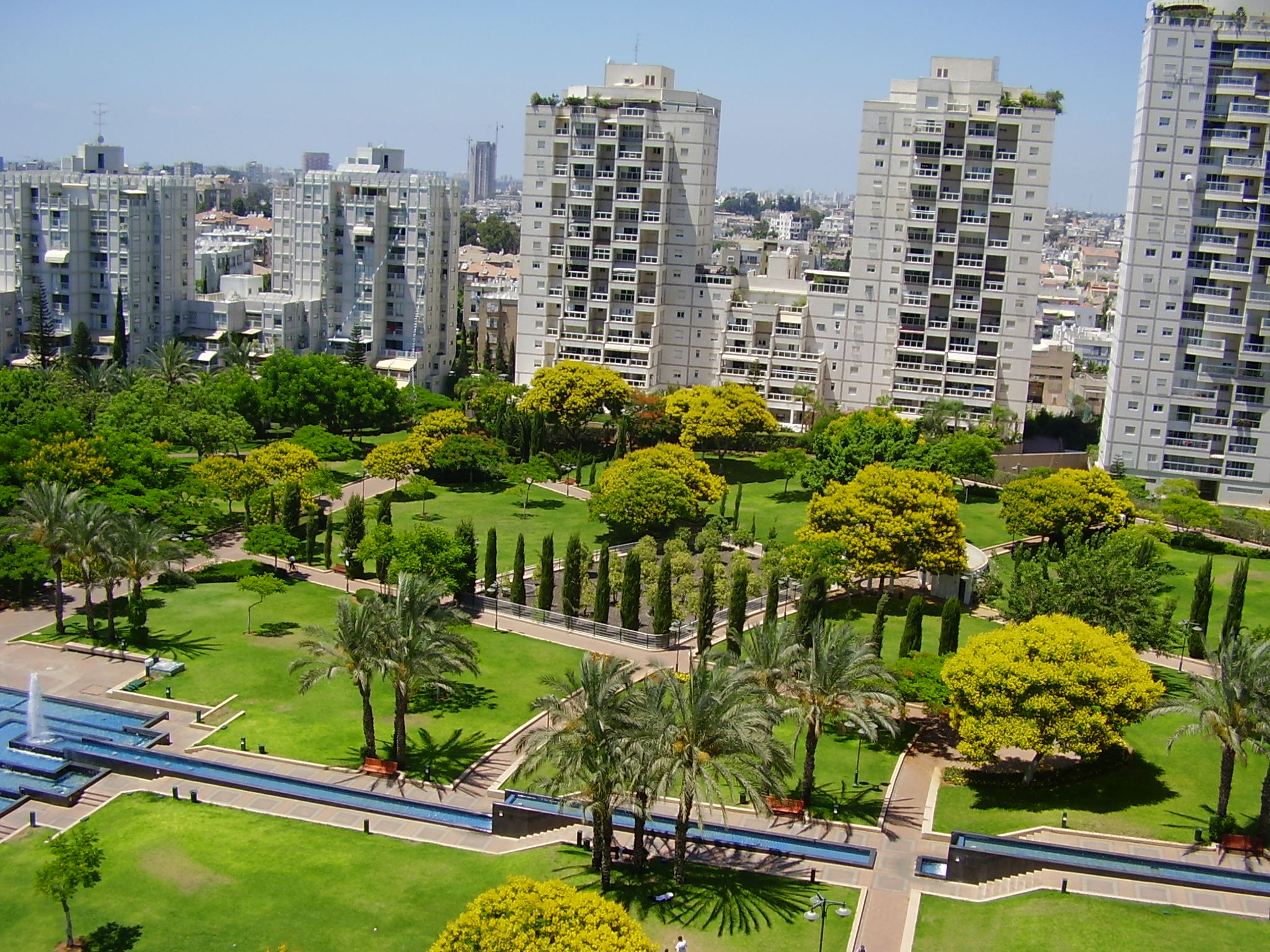 peltophorum dubium in yellow flowers in merom nave park in ramat-gan